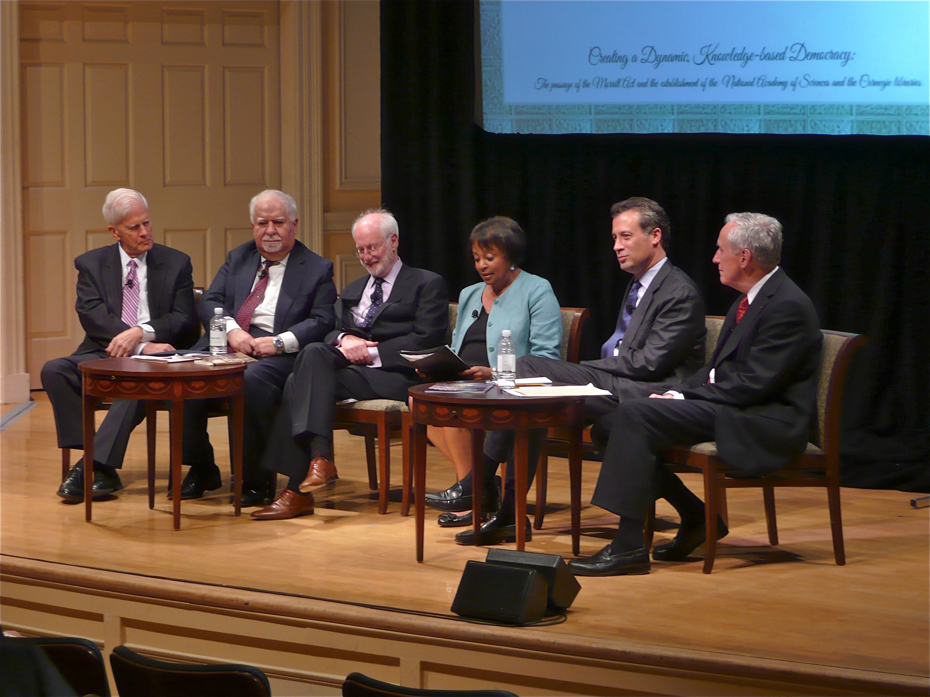 "Creating a Dynamic, Knowledge-Based Democracy. The Passage of the Morrill Act and the Creation of the National Academy of Sciences and the Carnegie Libraries." Morrill Act 150th Anniversary Celebration, June 23, 2012, Library of Congress.